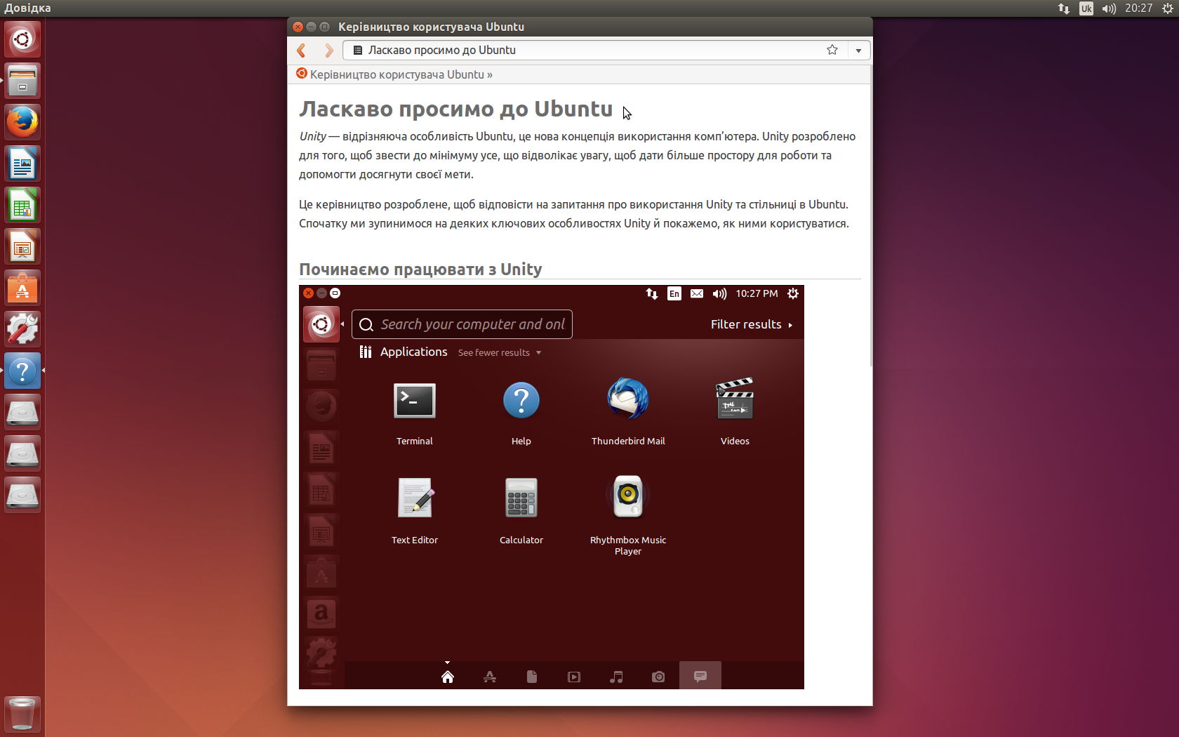 "Welcome to Ubuntu" (14.04) in Ukrainian.